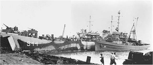 USS Zuni (ATF-95) stranded on Yellow Beach, Iwo Jima, 23 March 1945 while attempting to assist USS LST-944 in beaching.